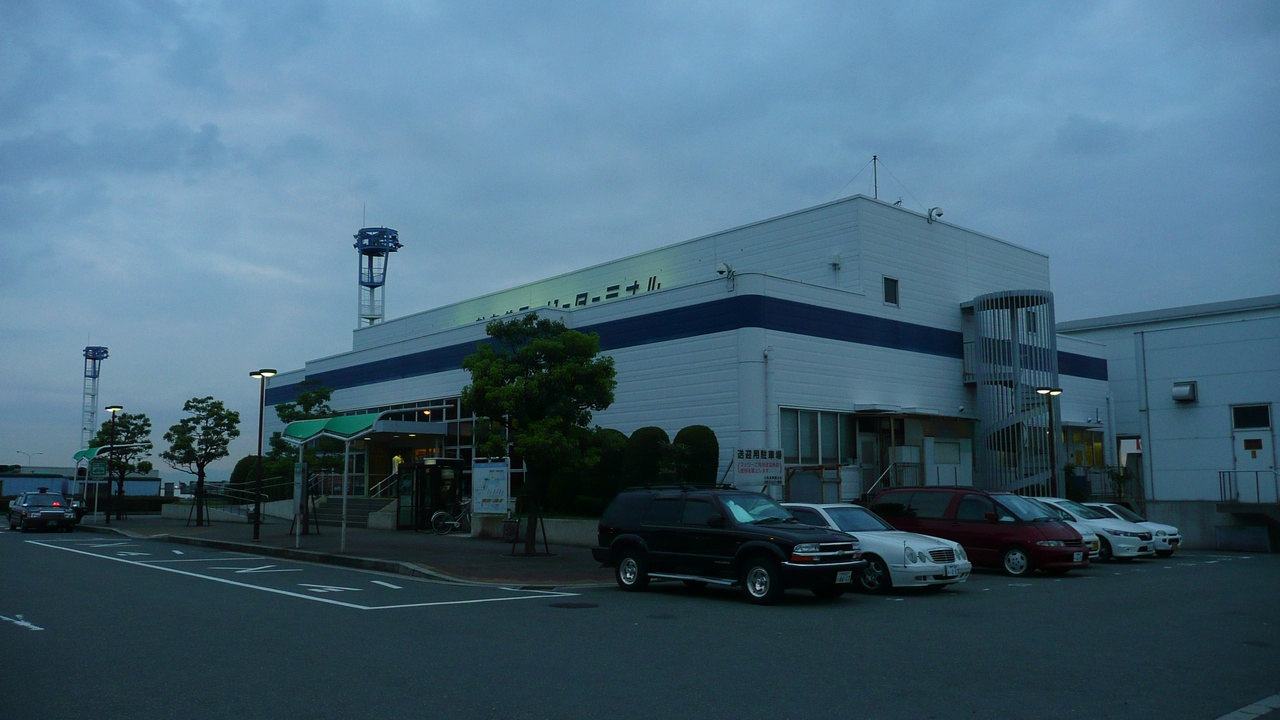 Port of Osaka - Kamome Ferry Terminal